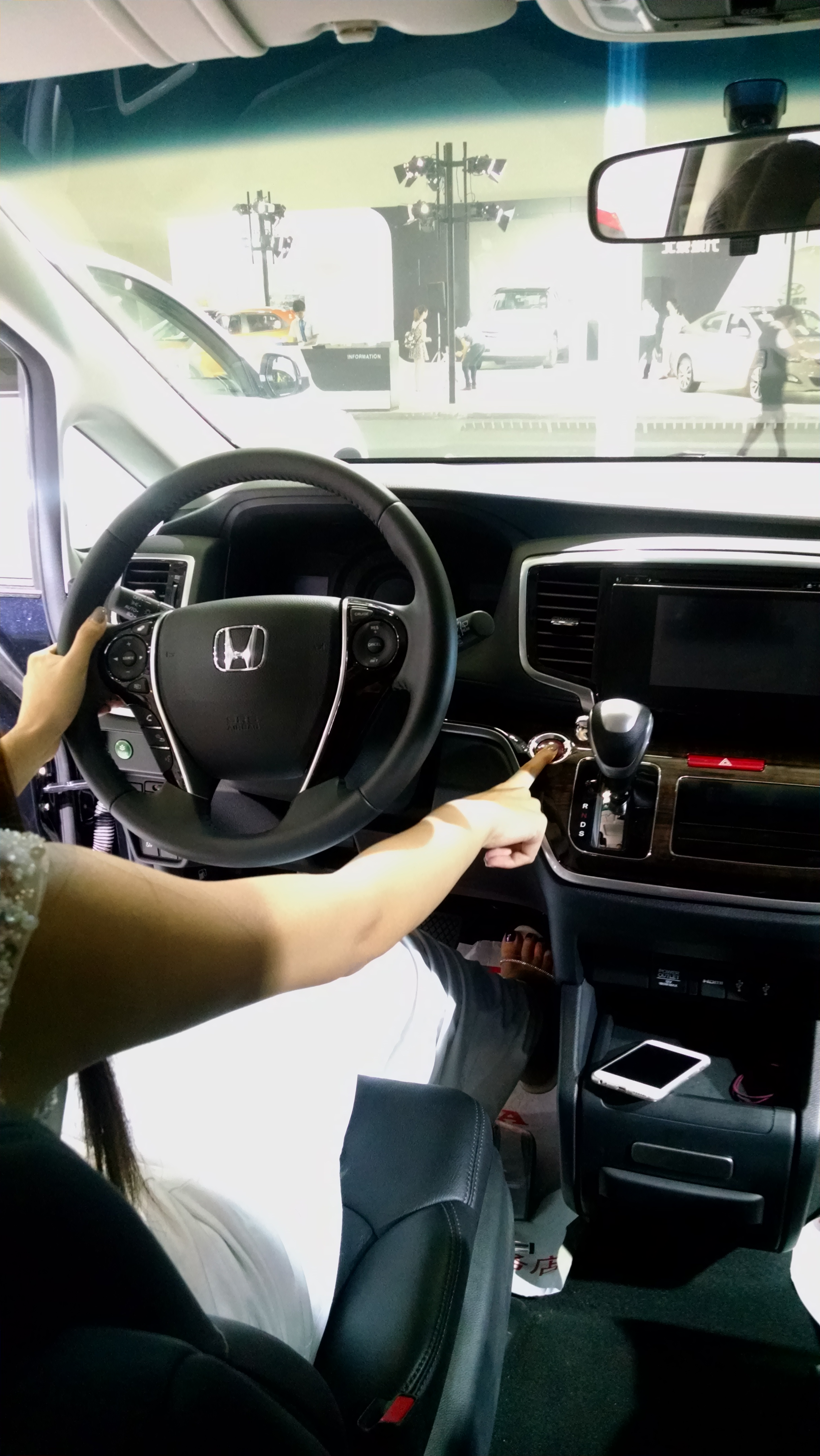 A Chinese girl shows Keyless Start Function in Honda Odyssey